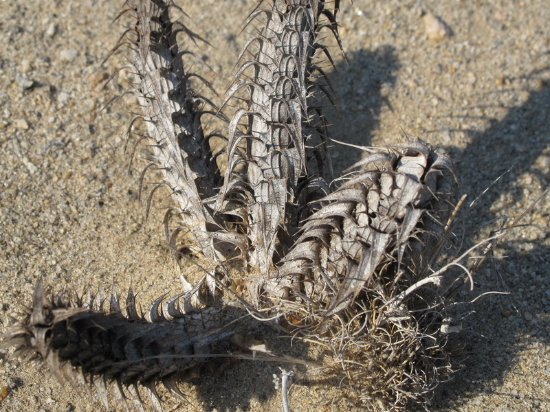 Blepharis grossa